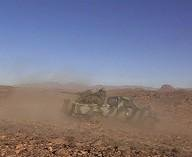 Niger rebels in desert combat, near Air Mountians, Niger